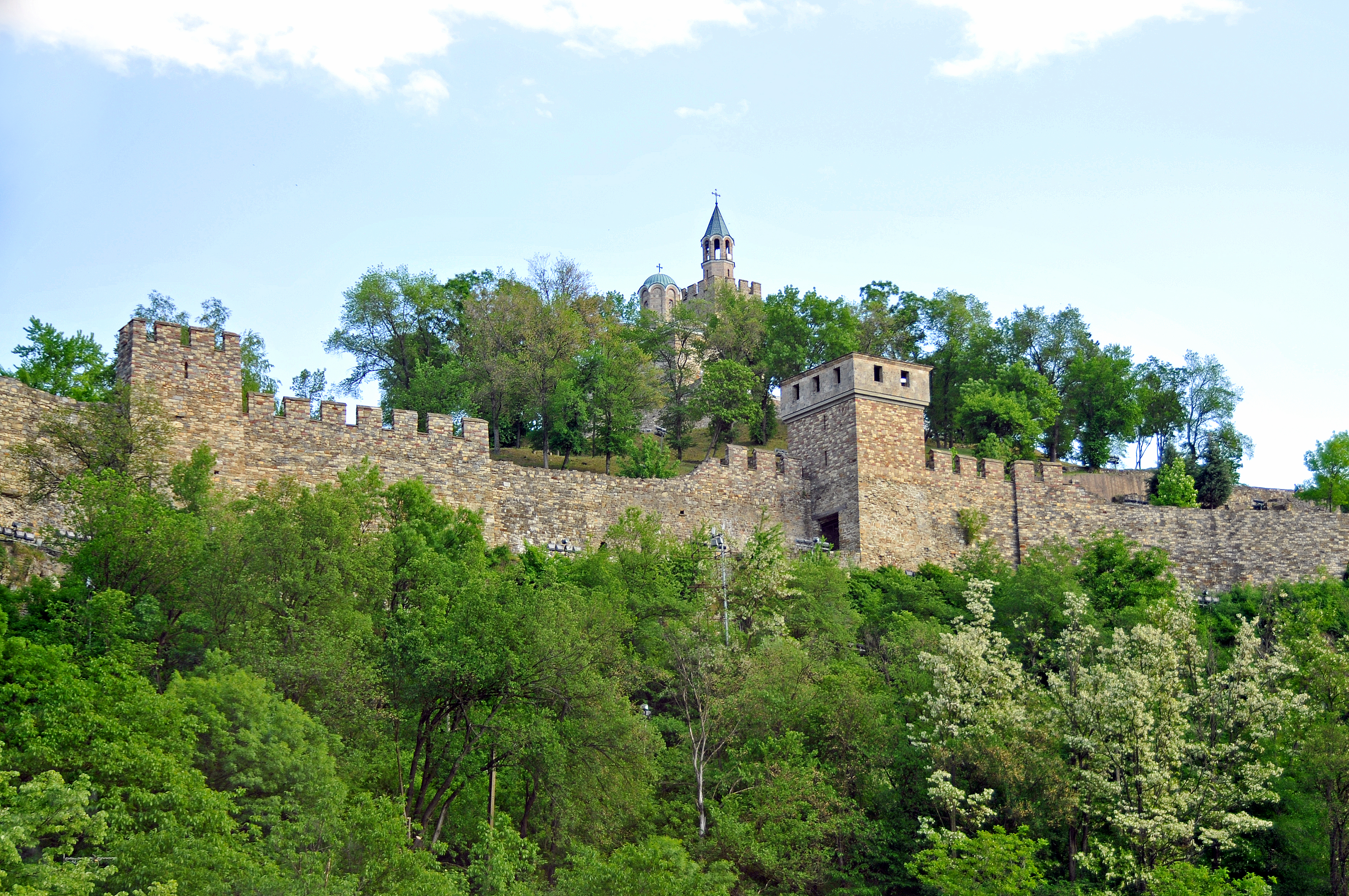 PLEASE, no multi invitations, glitters or self promotion in your comments, THEY WILL BE DELETED. My photos are FREE for anyone to use, just give me credit and it would be nice if you let me know, thanks - NONE OF MY PICTURES ARE HDR. Tsarevets is the castle on the hill and one of the first things visitors see.